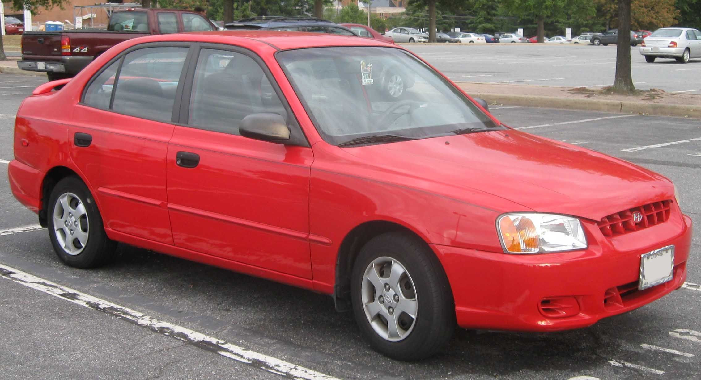 2000-2002 Hyundai Accent photographed in College Park, Maryland, USA.